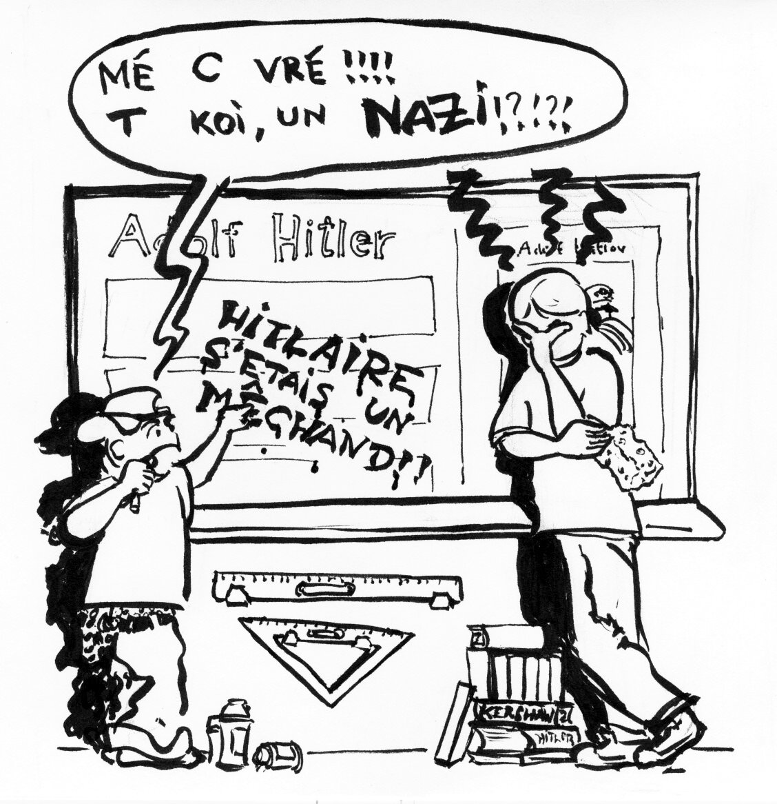 Comic intended to illustrate the French version of Wikipedia:Please_do_not_bite_the_newcomers. The child's speech reads: "But it's true! What are you, a Nazi?" (written in SMS language). Text on the blackboard reads : "Hitler was evil", in childish language and with numerous mispellings ("Hitlaire s'étais un mêchand" vs "Hitler était méchant").